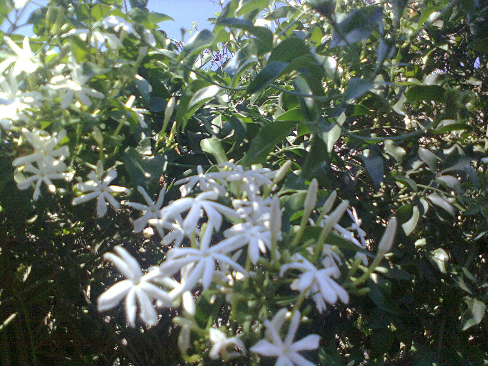 Jasmine tree from Palestine.